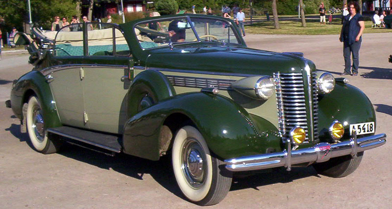 Buick 80C Roadmaster 4-Dorrars Convertible Sedan 1938